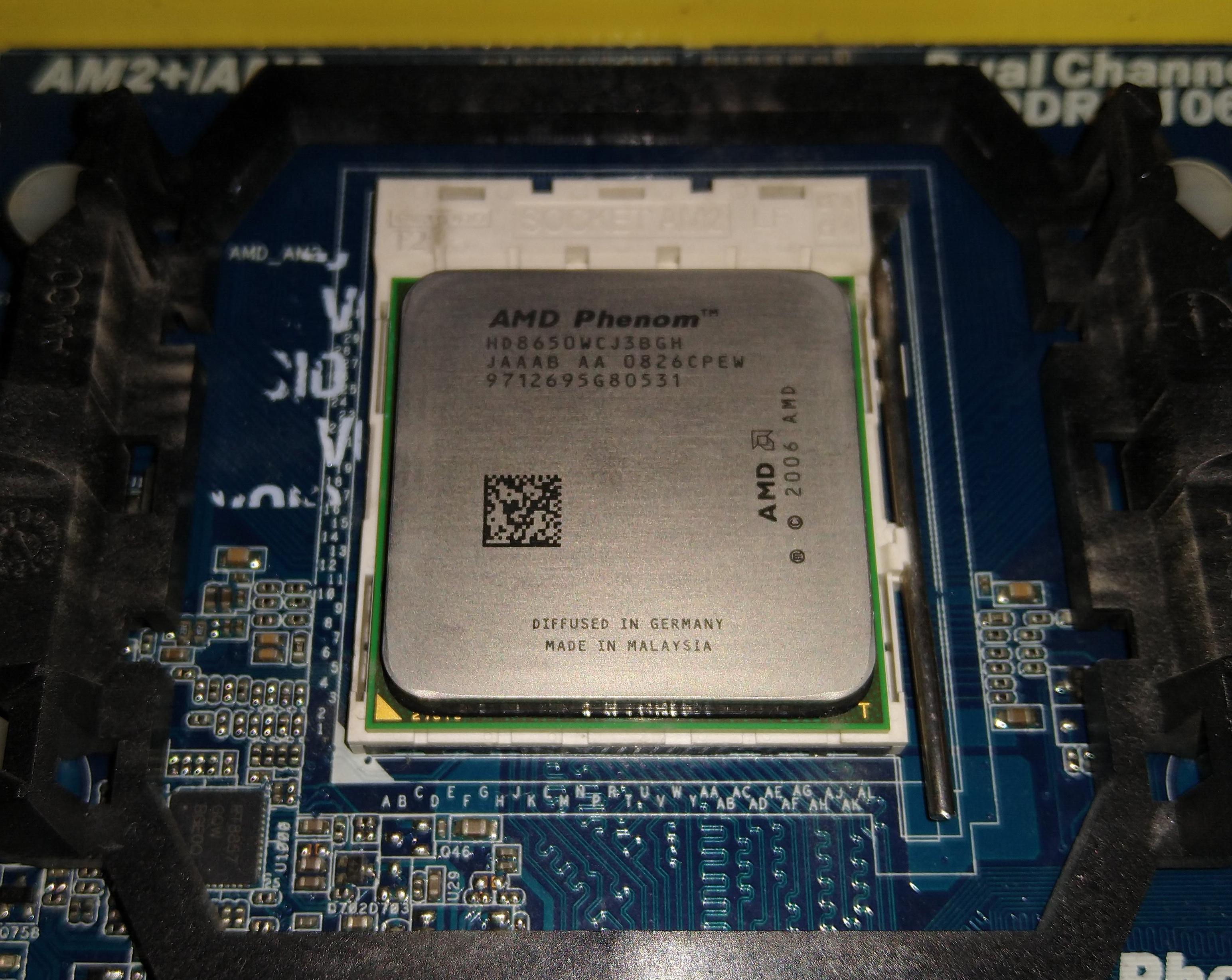 An AMD Phenom X3 8650 "Toliman" processor installed on an ASRock N68-S motherboard through its AM2+ Socket